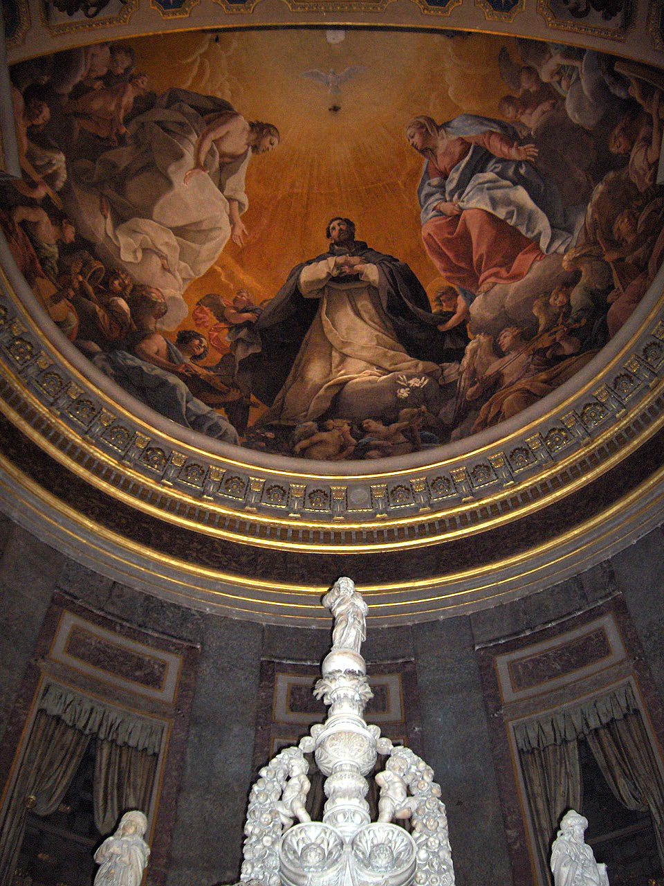 St. Dominic's Capel; St. Dominic's Glory by Guido Reni (1613-1615) Basilica of Saint Dominic Native nameBasilica di San DomenicoLocationPiazza San Domenico, Bologna, ItalyCoordinates44° 29′ 22.2″ N, 11° 20′ 40.2″ E Established1228Website